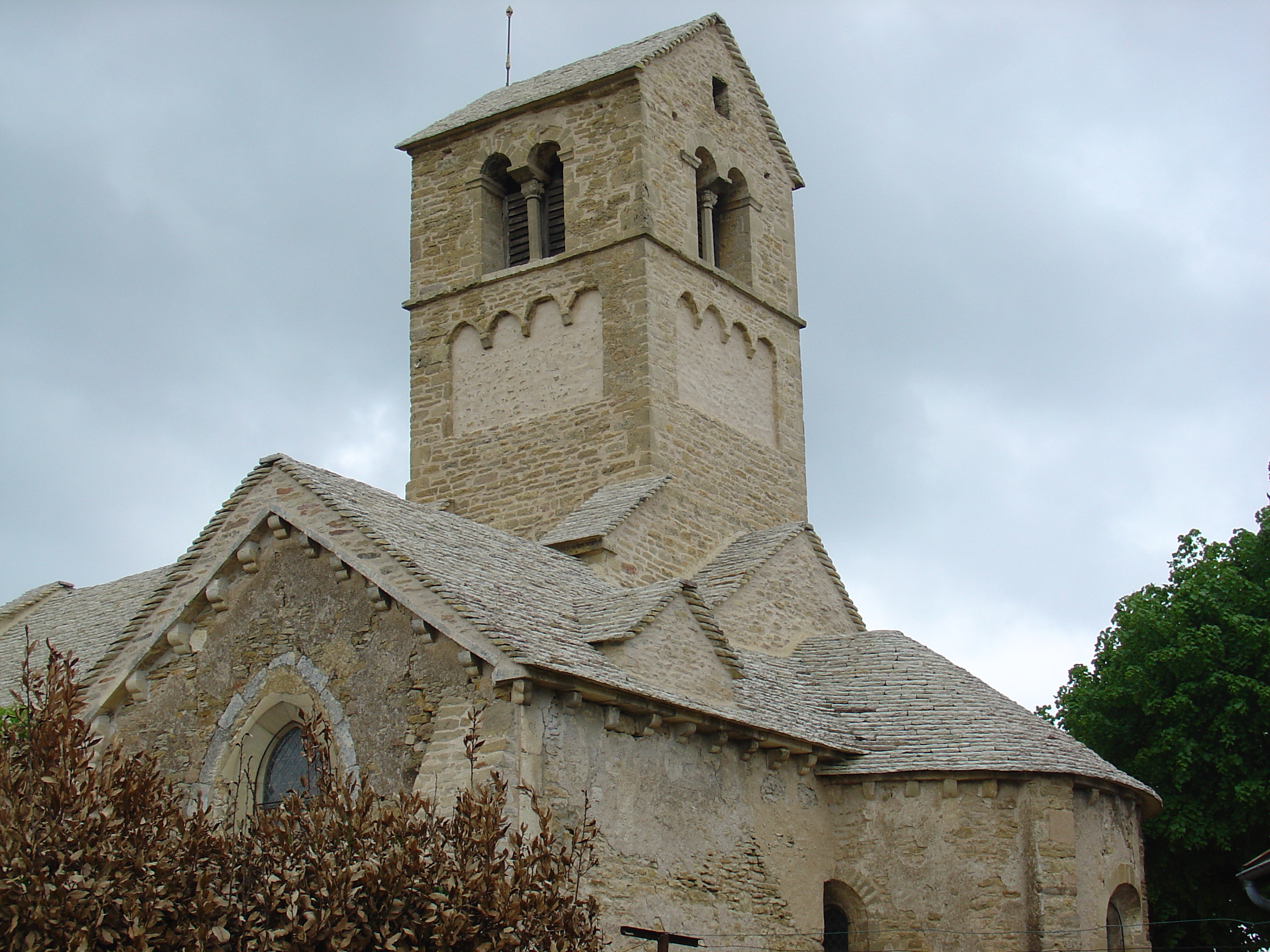 Chapel of Domage in Igé, Saône et Loire (71), France